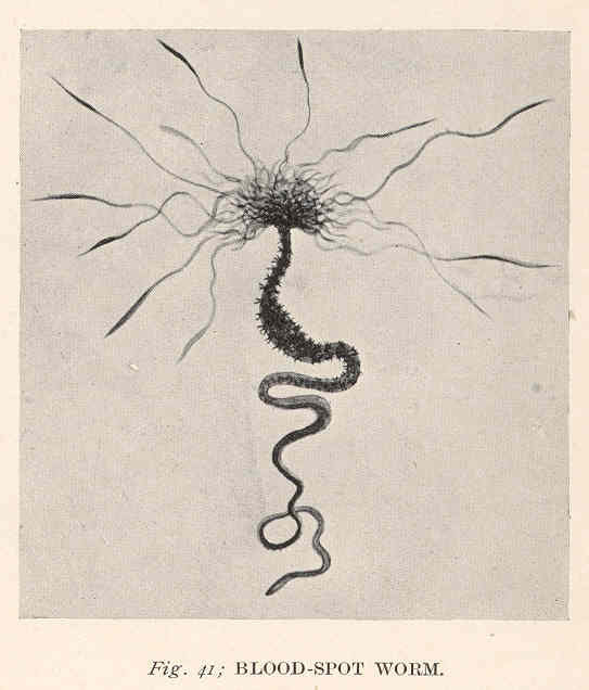 Blood-Spot Worm Subject: Annelida, Worms Tag: Invertebrates